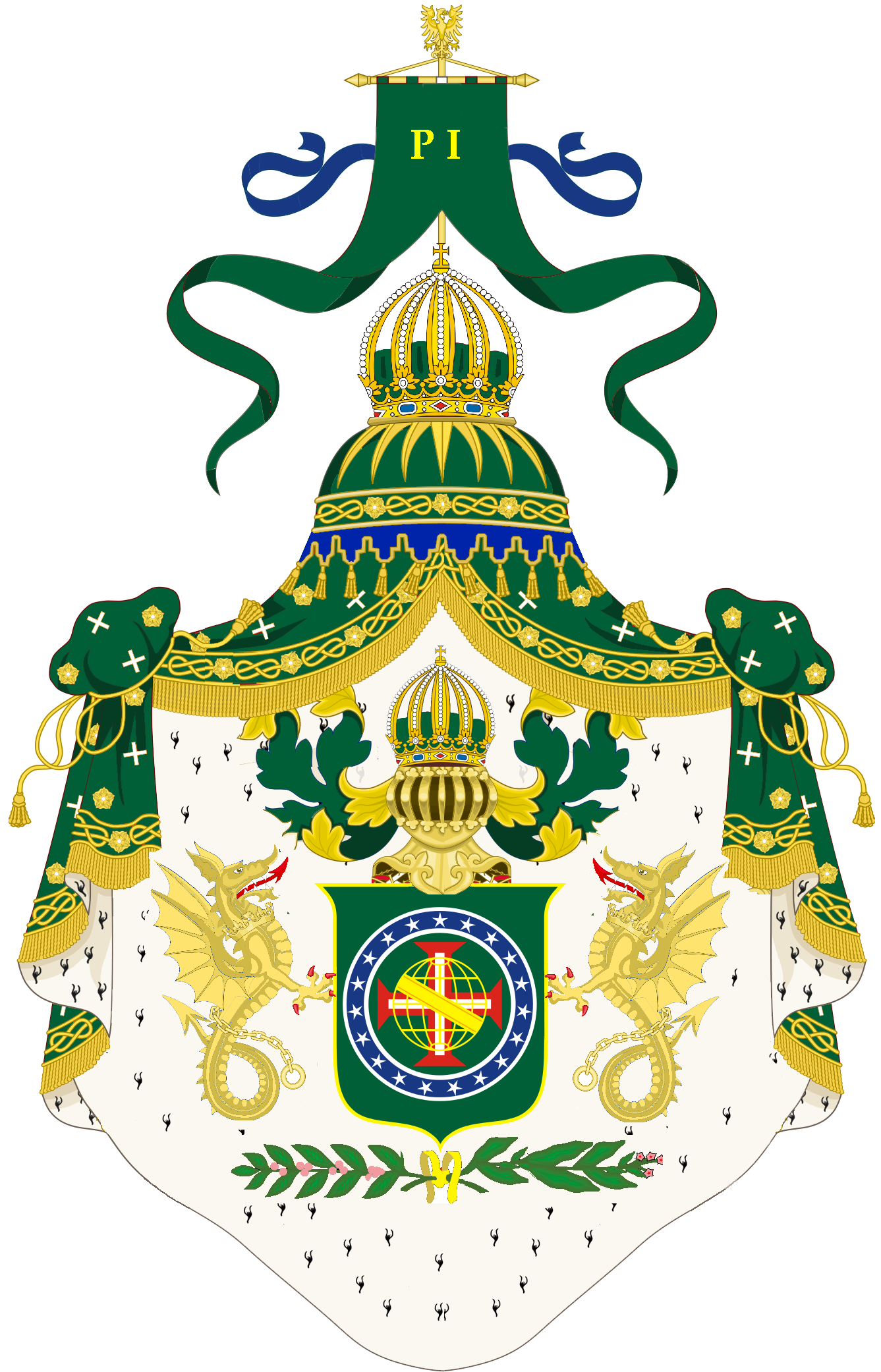 Greater Coat of Arms of Brazil Empire